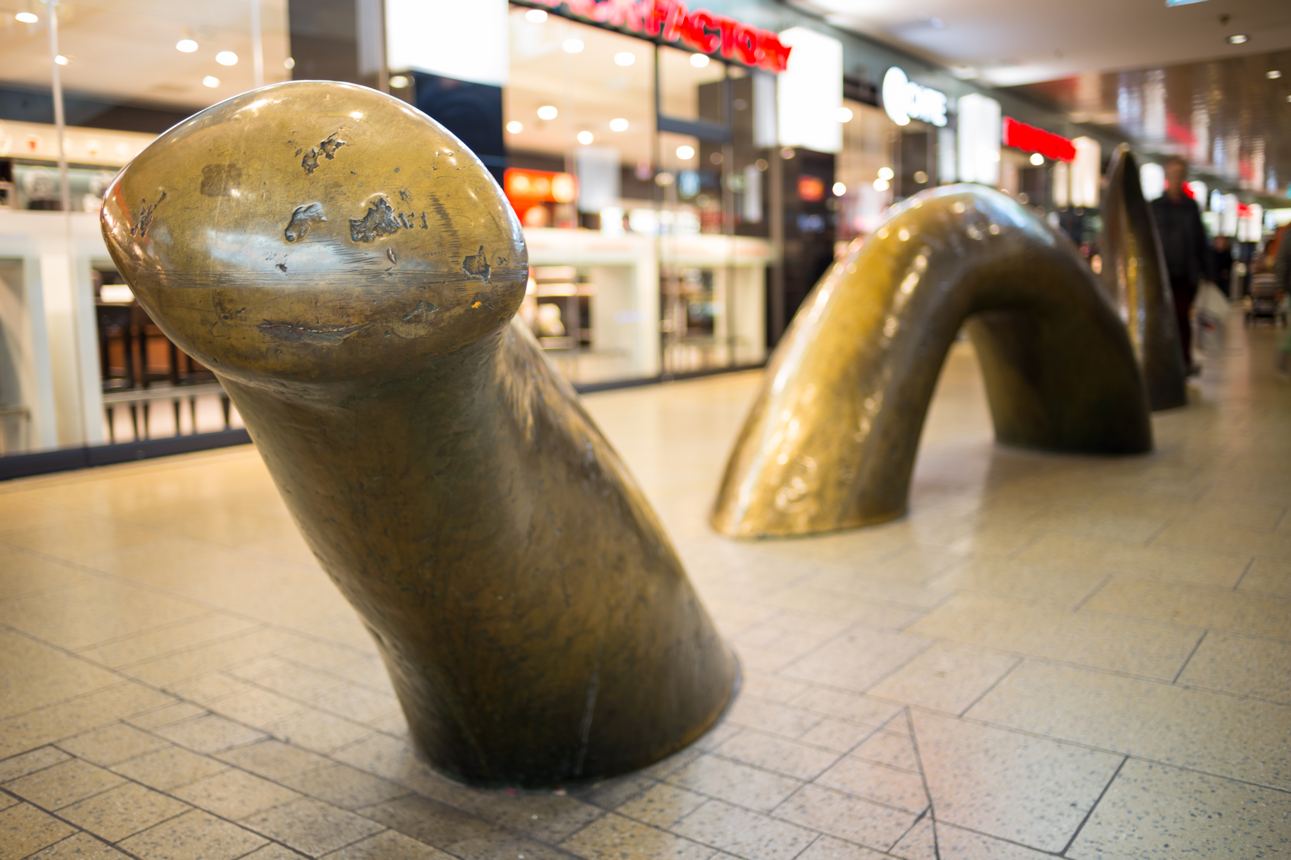 Sculpture "Passarellen-Wurm" in the basement of Hannover main station, in Mitte quarter of Hannover, Germany.